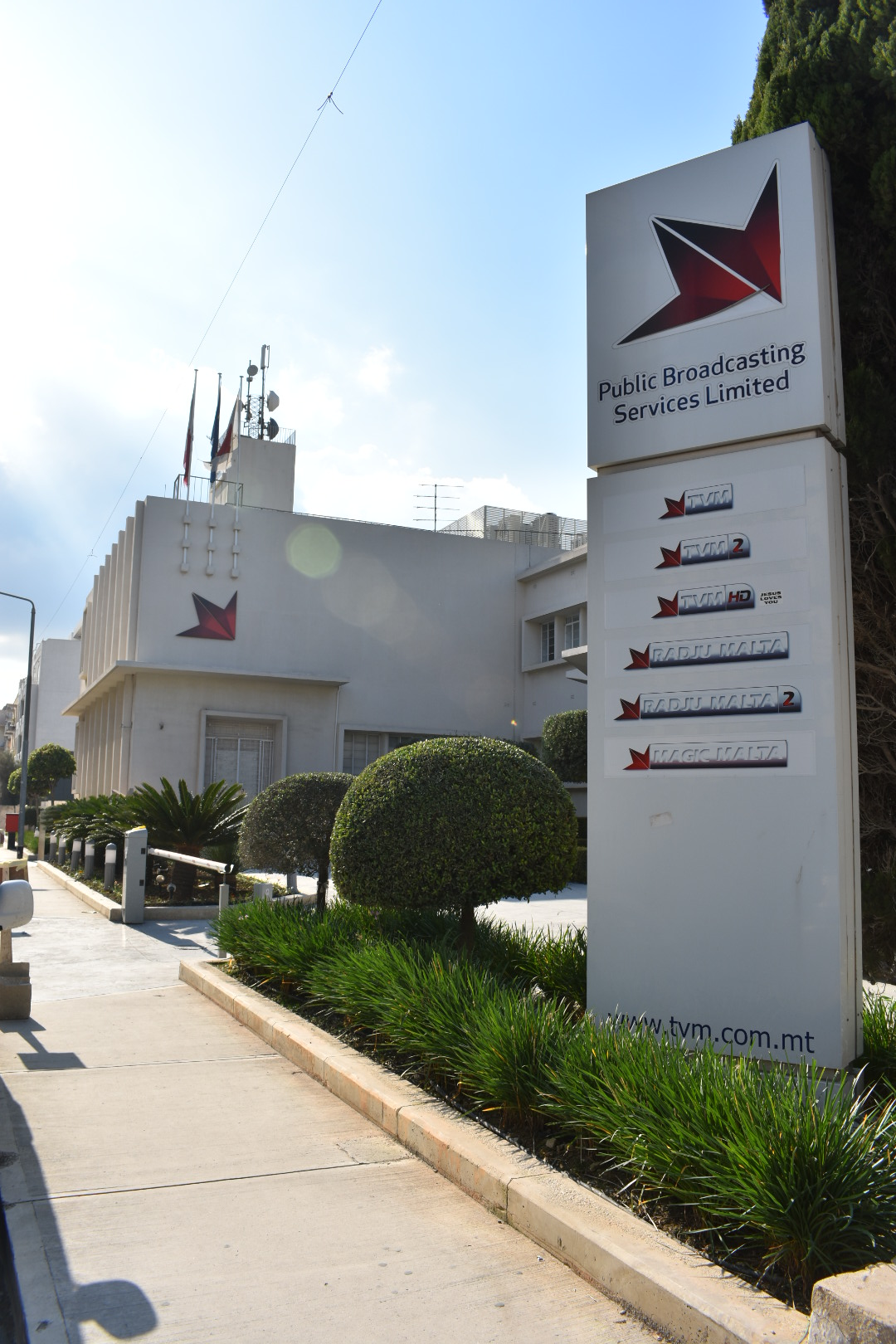 Pietà Malta Buildings